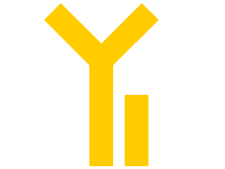 Mark of Ww2 GermanDivision Panzer 8 - 1941-1945